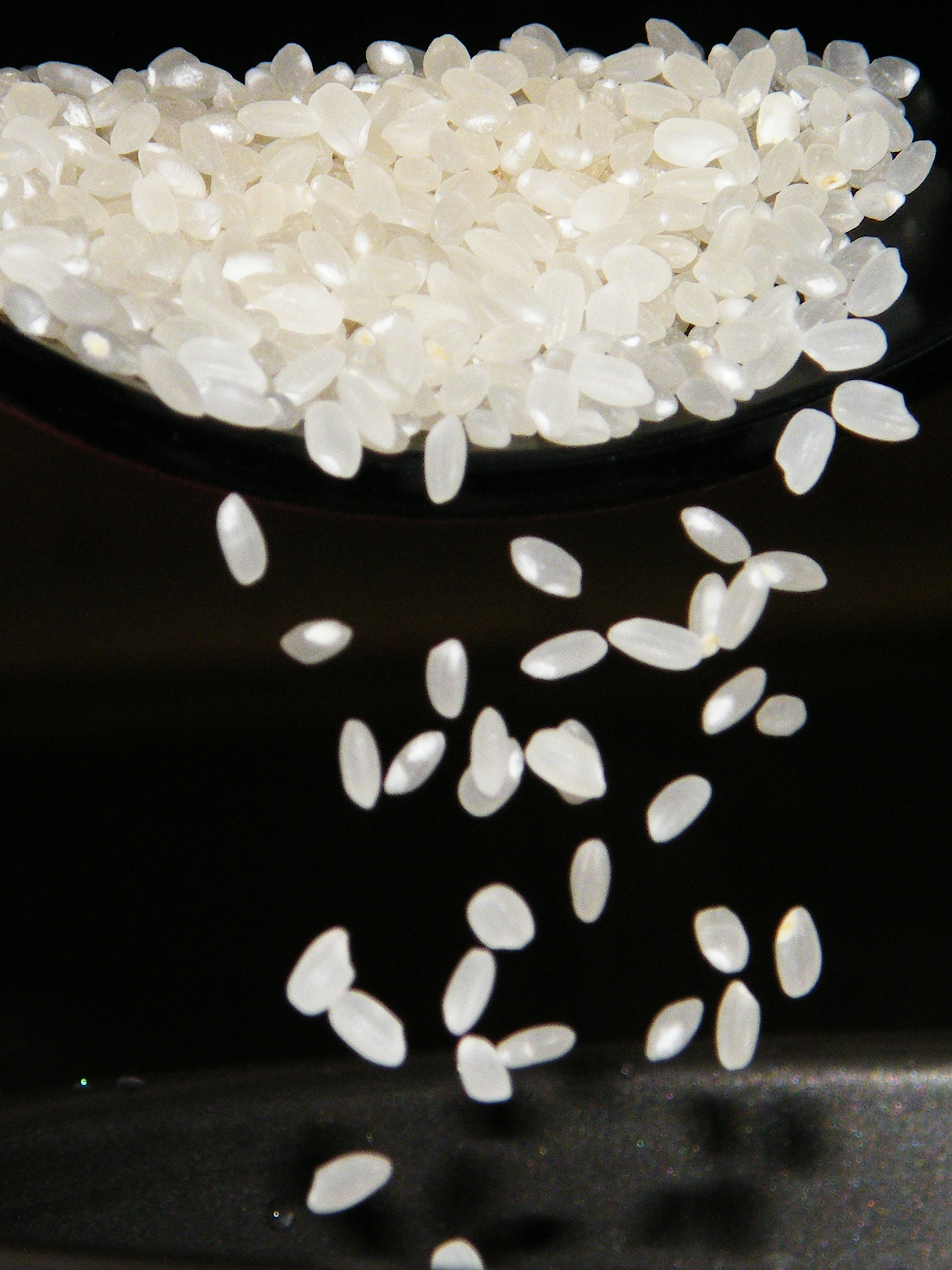 Koshihikari (コシヒカリ, 越光) is a popular variety of rice cultivated in Japan. Koshihikari was first created in 1956, by combining 2 different strains of Nourin No.1 and Nourin No.22 at the Fukui Prefectural Agricultural Research Facility. The character for koshi (越) is used to represent old Koshi Province, which stretched from present-day Fukui to Yamagata. Koshihikari can be translated as "the light of Koshi ".